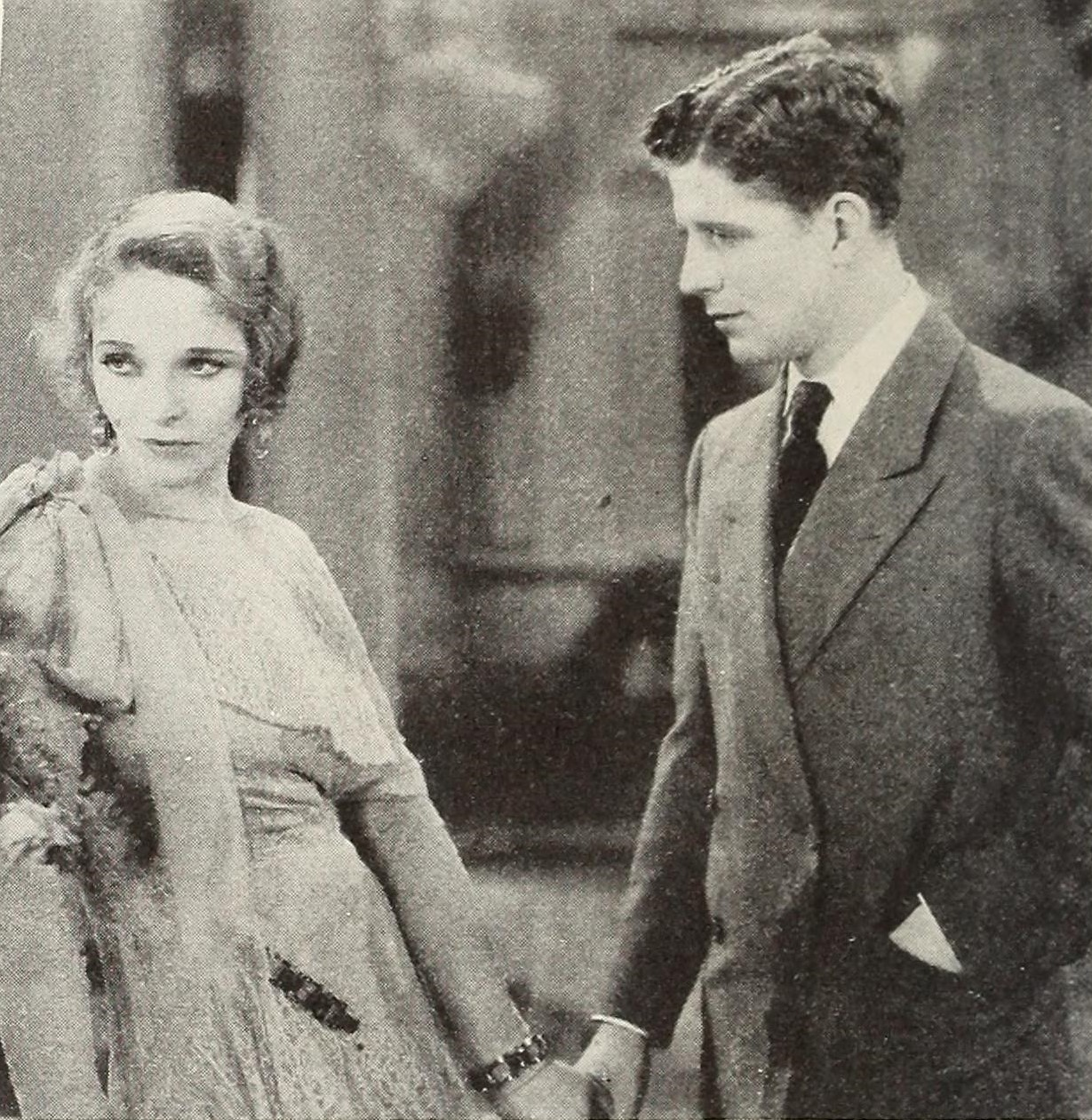 Screenland, Jan. 1930, pgs. 22-23